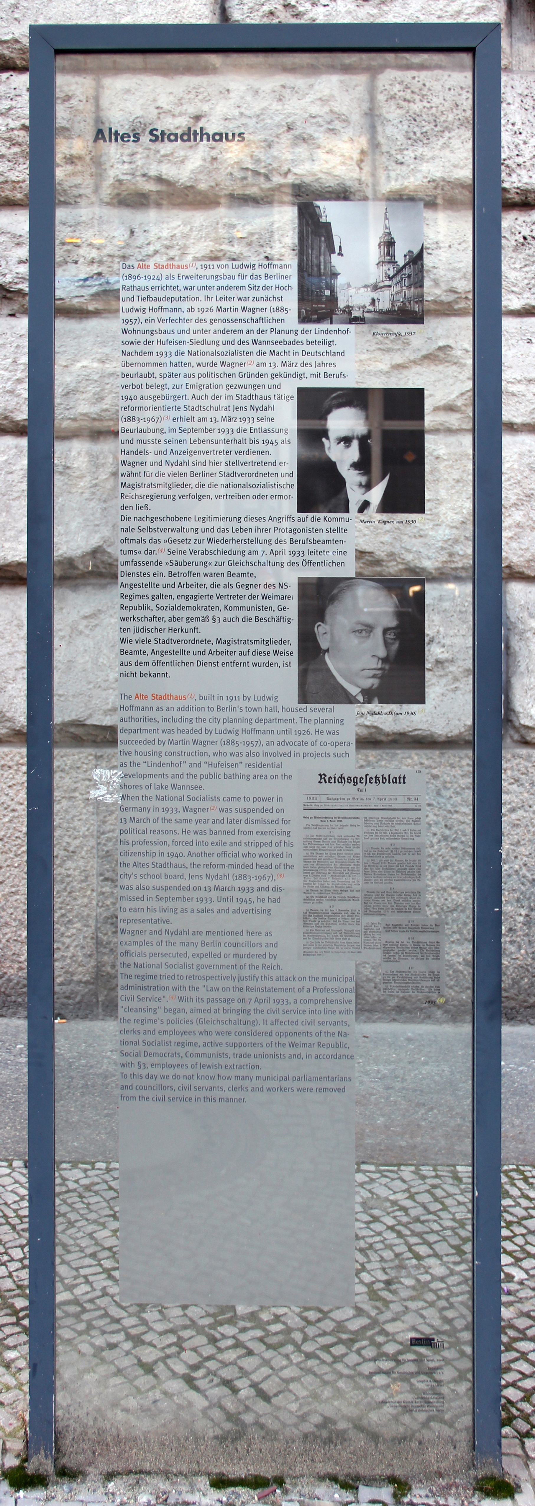 Memorial plaque, Altes Stadthaus, Klosterstraße 47, Berlin-Mitte, Germany